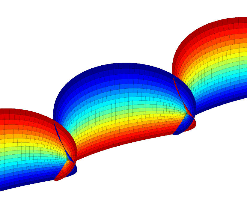 Plot of two periods of Catalan's minimal surface. The surface has a cycloid as a geodesic, and is self-intersecting.